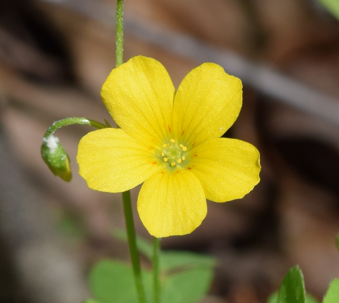 Oxalis stricta (common yellow woodsorrel) at the University of Mississippi Field Station